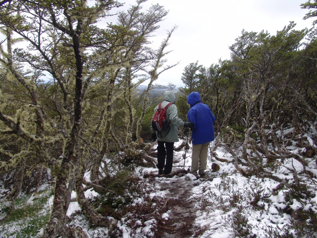 Hiking Near Ushuaia